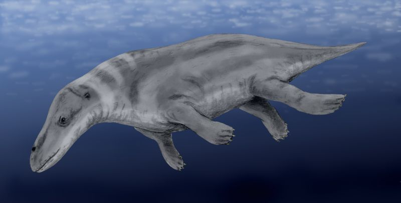 Rodhocetus kasrani, an archaeoceti whale from the late Eocene of Pakistan, digital